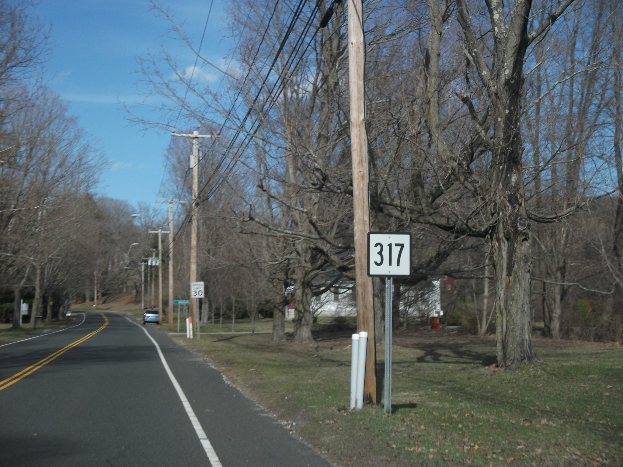 State Route 317 heading eastward through Roxbury, Connecticut. Signage denoting the distance to Woodbury is visible in the distance.